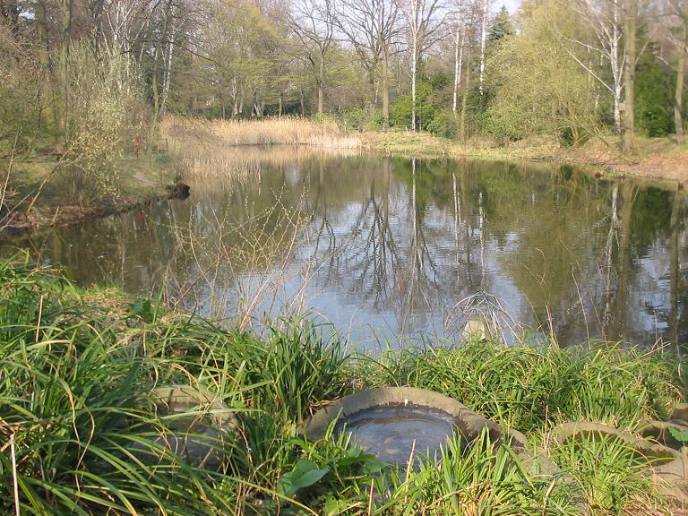 Natural monument kettle hole „Krummer Pfuhl“ in the cemetery „II. Städtischer Friedhof Eythstraße“, Berlin-Schöneberg, Germany, nearby Alboinplatz (place).